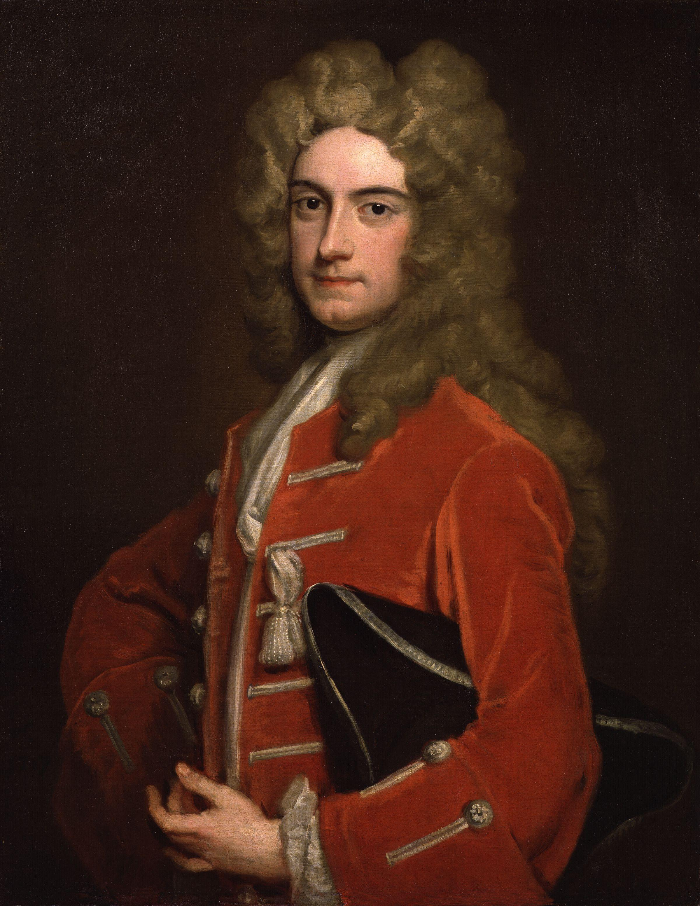 Richard Lumley, 2nd Earl of Scarbrough, by Sir Godfrey Kneller, Bt (died 1723), given to the National Portrait Gallery, London in 1945. All images in this batch have been confirmed as author died before 1939 according to the official death date listed by the NPG.